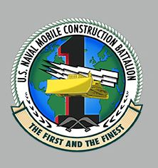 Unit insignia